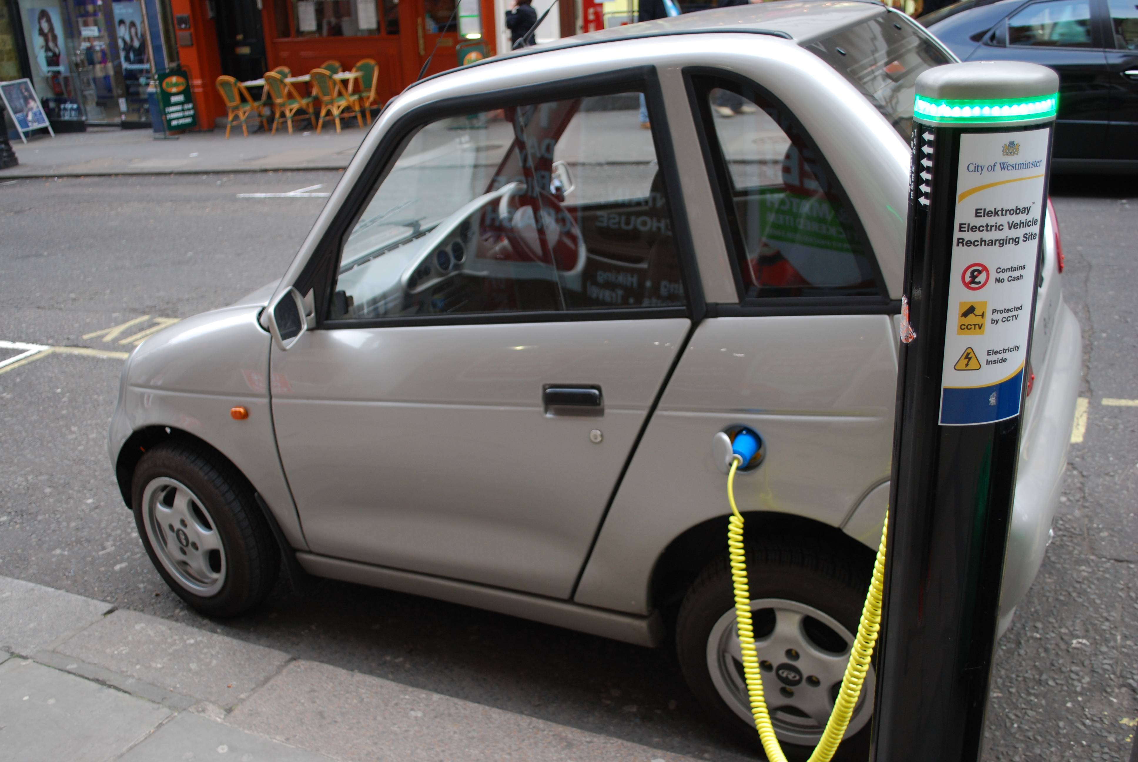 At a charging post on a street between Covent Garden and the Strand.